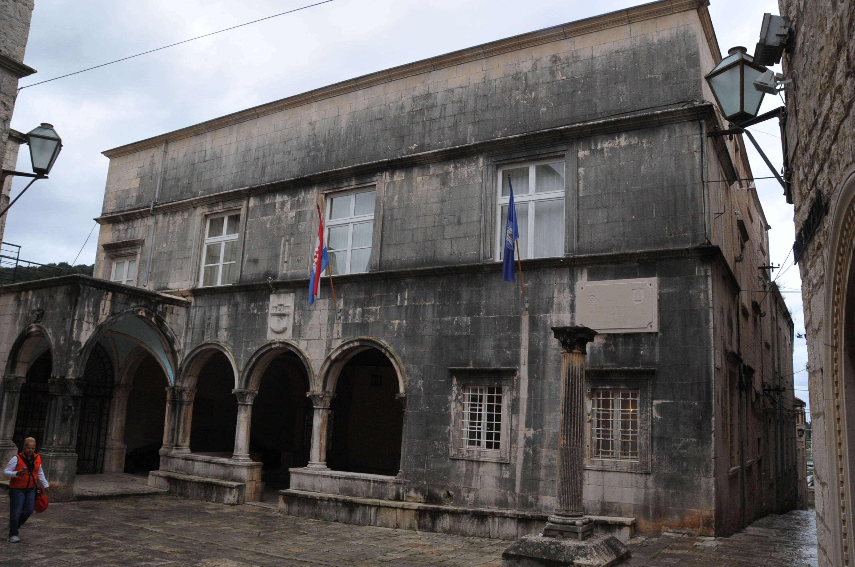 Old City Hall